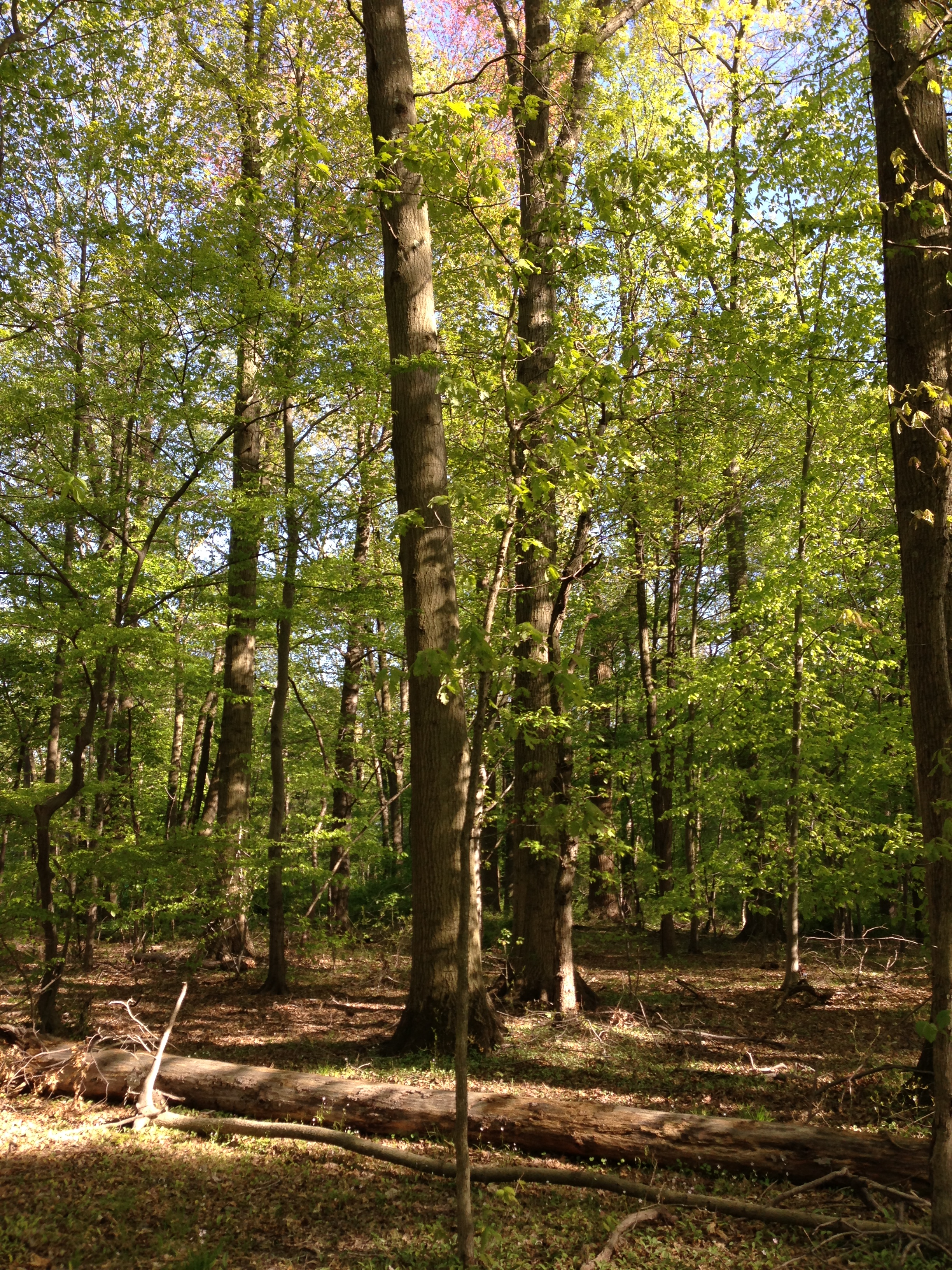 Stunted white oak saplings beneath the large white oak near the tributary to the West Branch Shabakunk Creek between Walton and Farrell Avenues on May 4th 2013